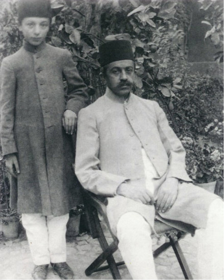 Sadegh Hedayat and his Father, Mehdi Qoli Hedayat